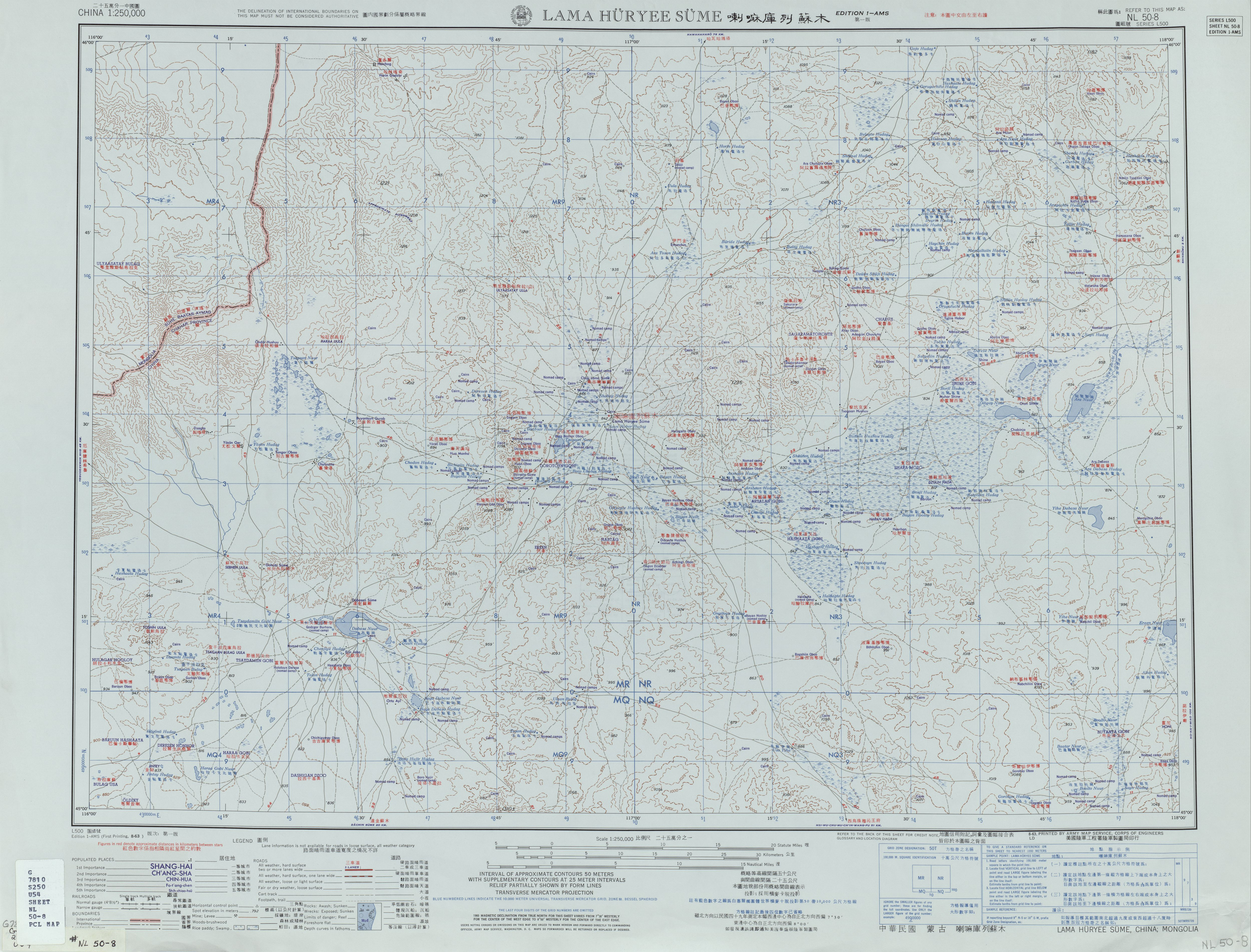 Map of Lama Hüryee Süme area, Inner Mongolia